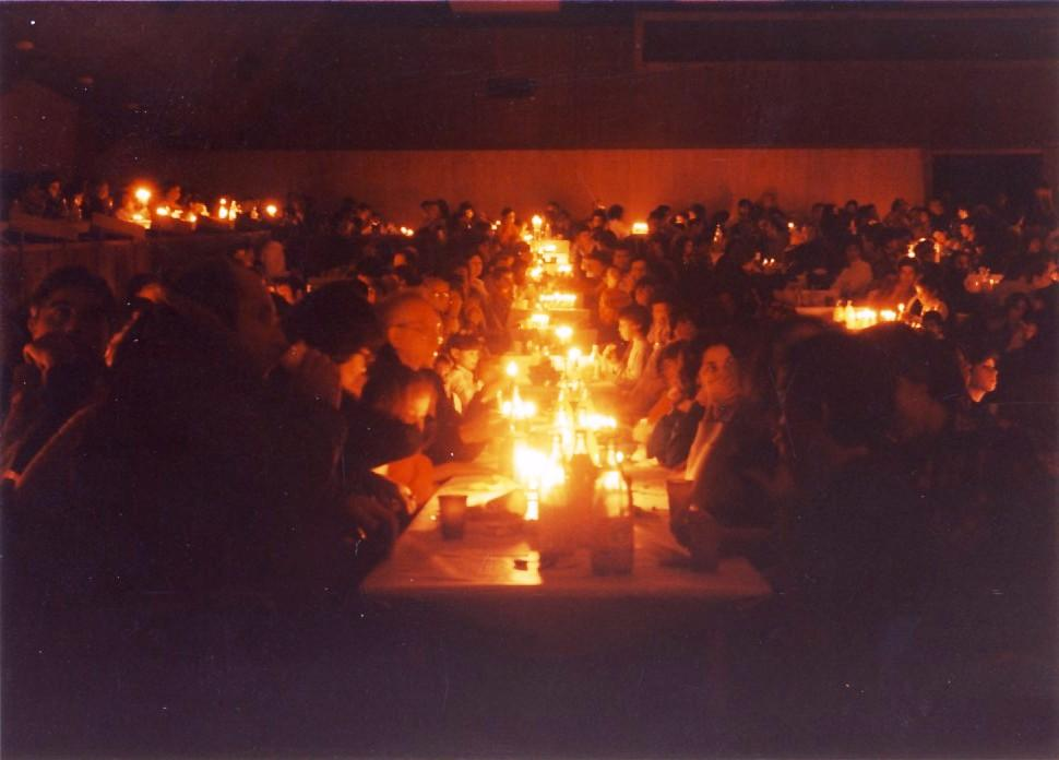 Gan-Shmuel zk11- 44, Events in Israel